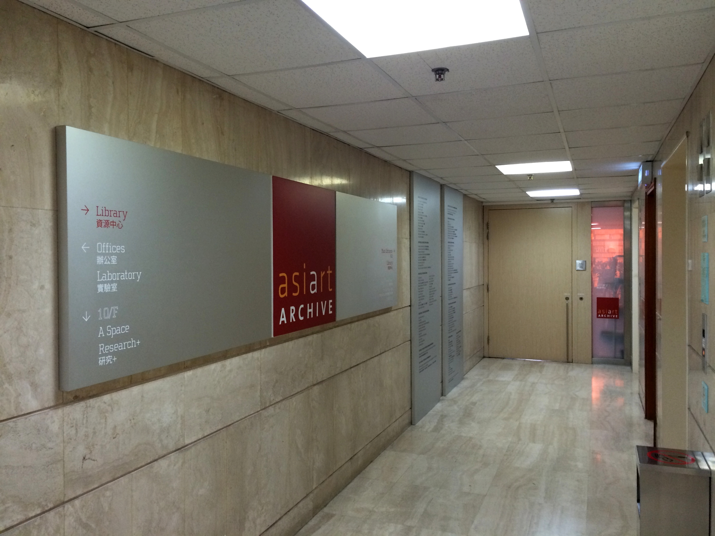 Asia Art Archive Entrance